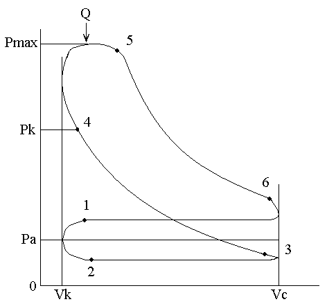 Pv diagram of four stroke engine